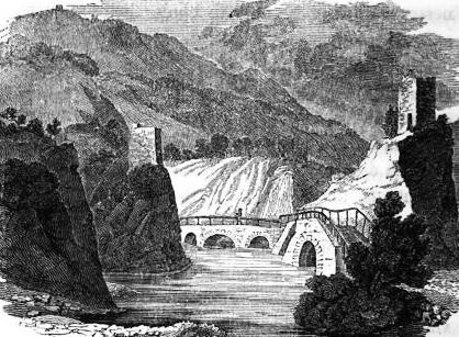 An illustration showing a Georgian landscape with an old bridge and towers. Chapter 12, Travels in Russia, the Krimea, the Caucasus, and Georgia, vol 1, by Robert Lyall (London, 1825)